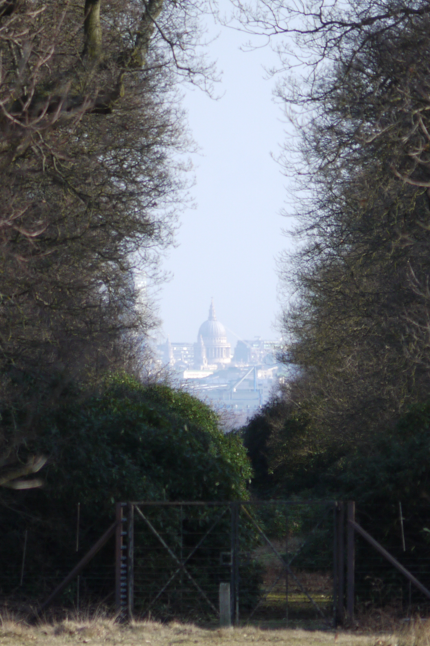 Protected view of St Paul's Cathedral from King Henry's Mound, Richmond Park. The cathedral is 15.5 km distant from the view point. This is a crop from a 4000 x 3000 px photo, with an equivalent 35mm camera lens of 400mm.